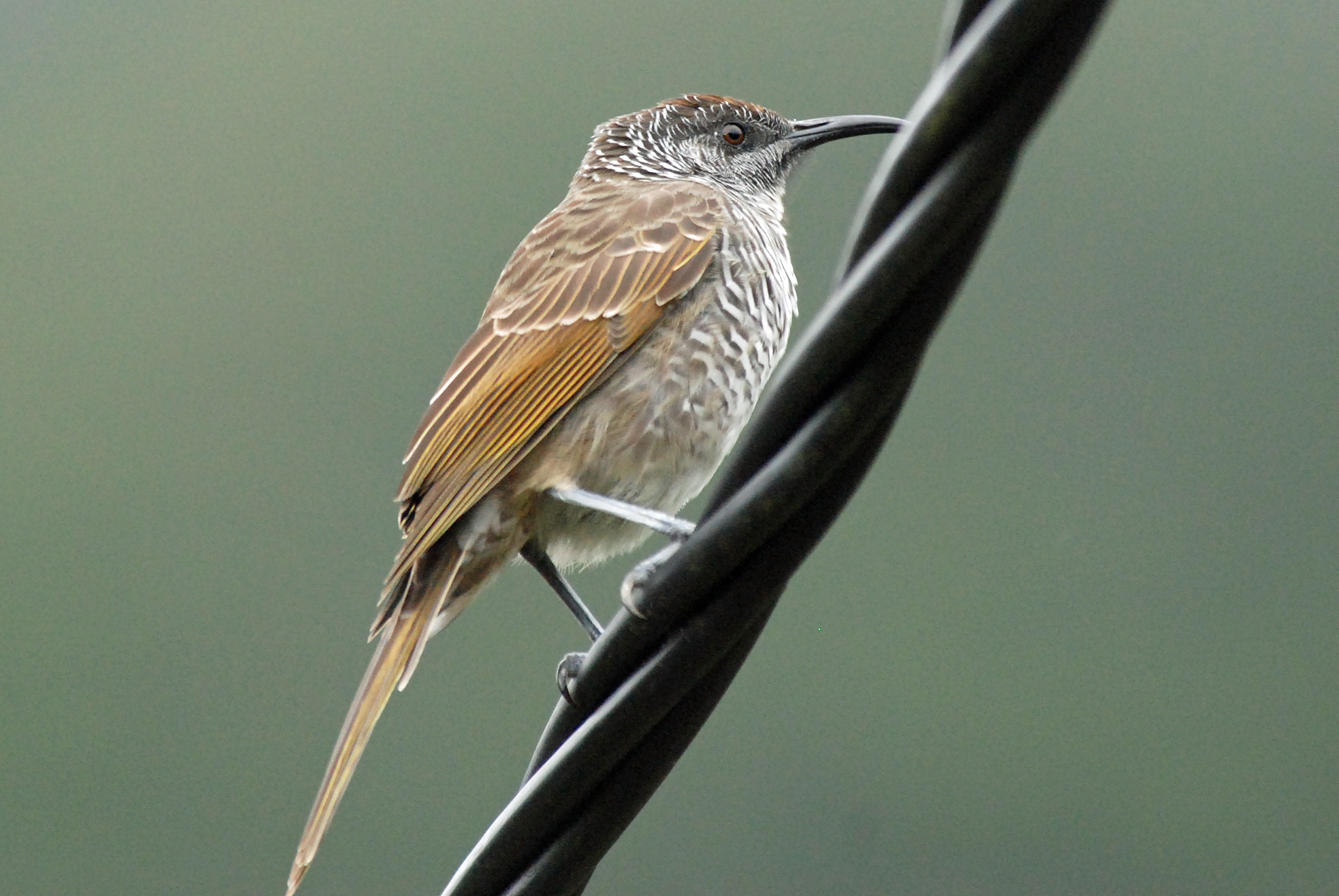 Barred Honeyeater, Mount Koghi, New Caledonia